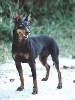 A Manchester Terrier demonstrating erect ears.